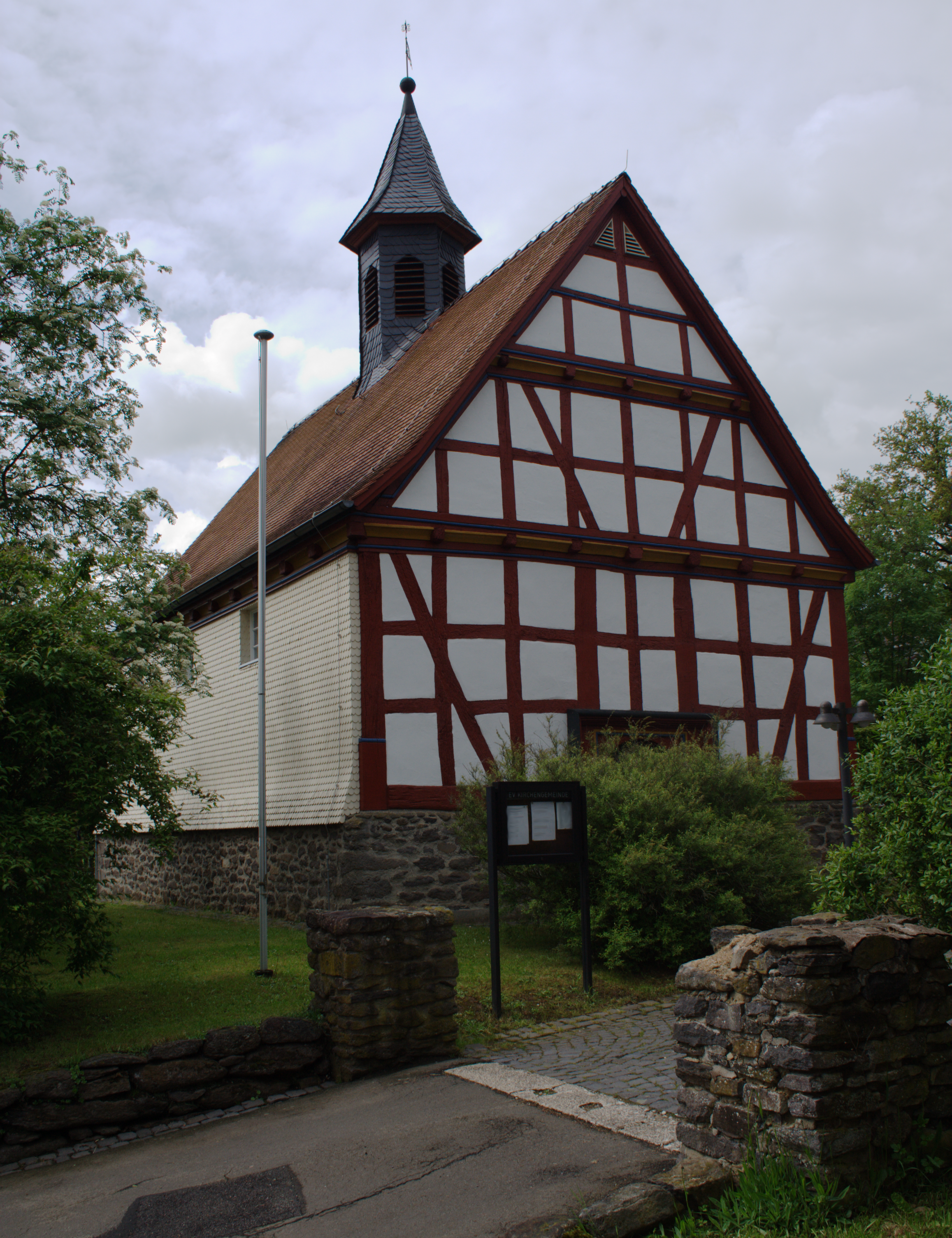 Protestant church in Muecke Ilsdorf, Hesse, Germany